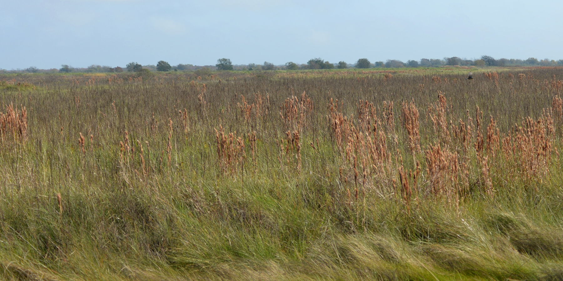 San Bernard National Wildlife Refuge showing Gulf coastal grassland and prairie habitat. Brazoria County, Texas, USA (28.8885°N, 95.5641°W, 1 m. elev.). Photographed on 12 December 2016. William L. Farr